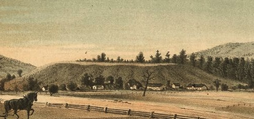 Cropped portion of an 1881 lithograph, depicting Spanish Hill from Waverly, New York